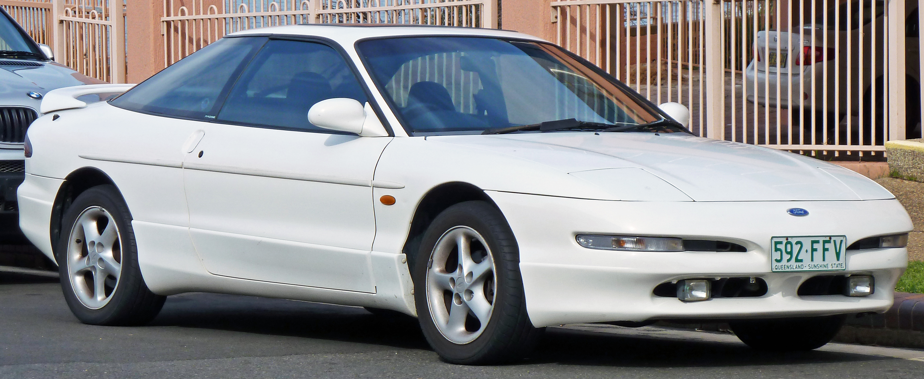 1994 Ford Probe liftback. Photographed in Cronulla, New South Wales, Australia. Vehicle registration enquiry results Jurisdiction Queensland Registration 592FFV Chassis code 1ZVLT22B1R5178480 Year of manufacture 1994